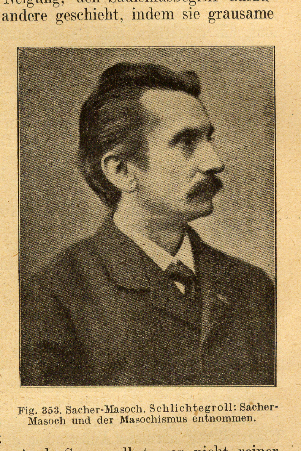 Leopold von Sacher-Masoch. From the book: Albert Moll, Handbuch der Sexualwissenschaften, Verlag Von F.C. Vogel, Leipzig 1921.